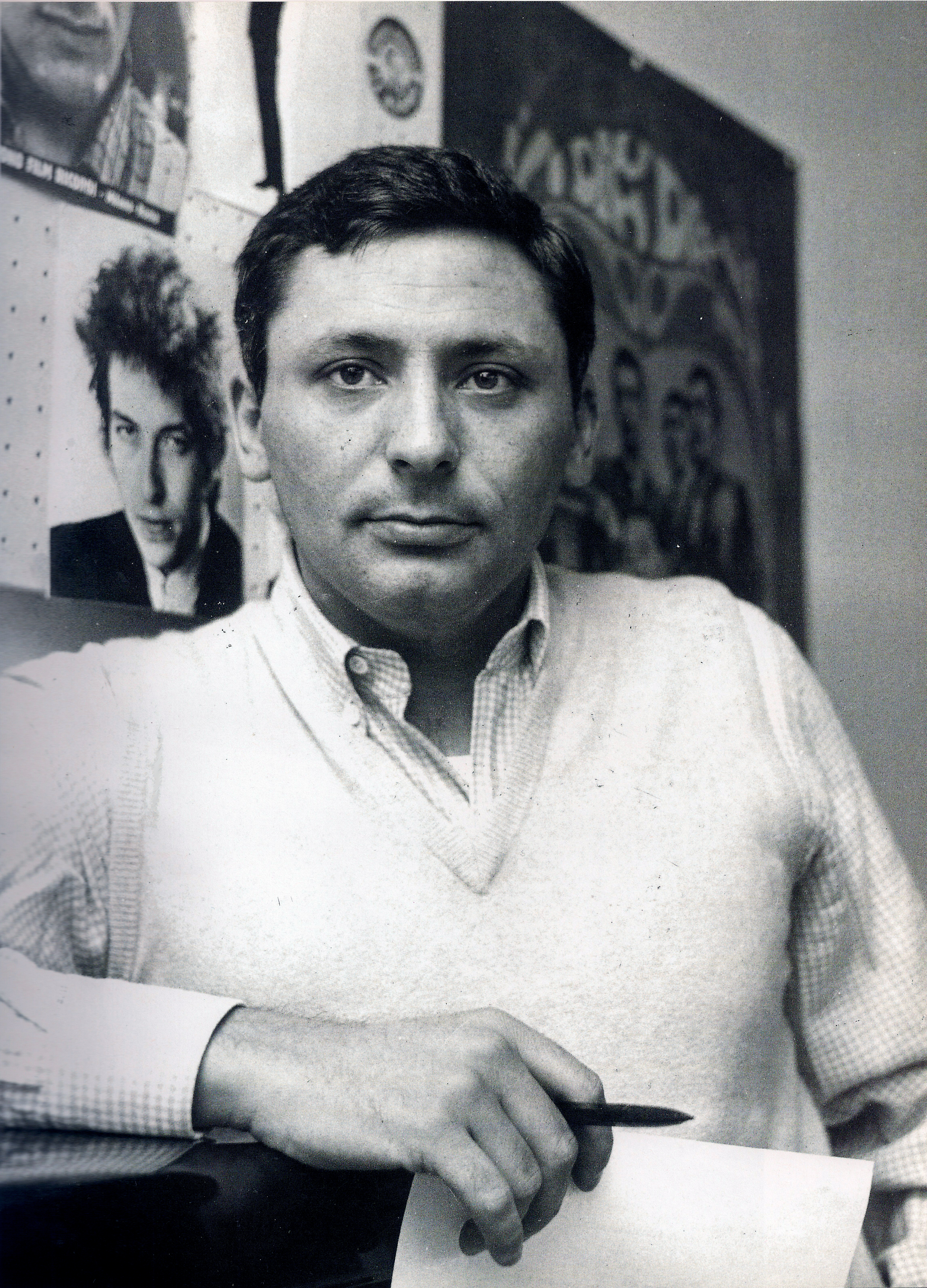 Lyricist Giulio Rapetti aka Mogol in 1968